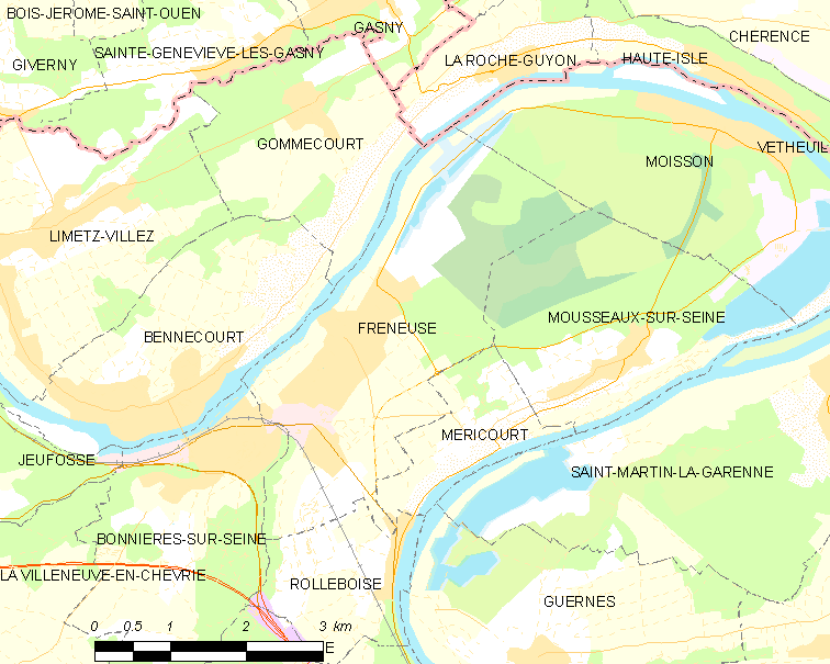 Map of French municipality Freneuse